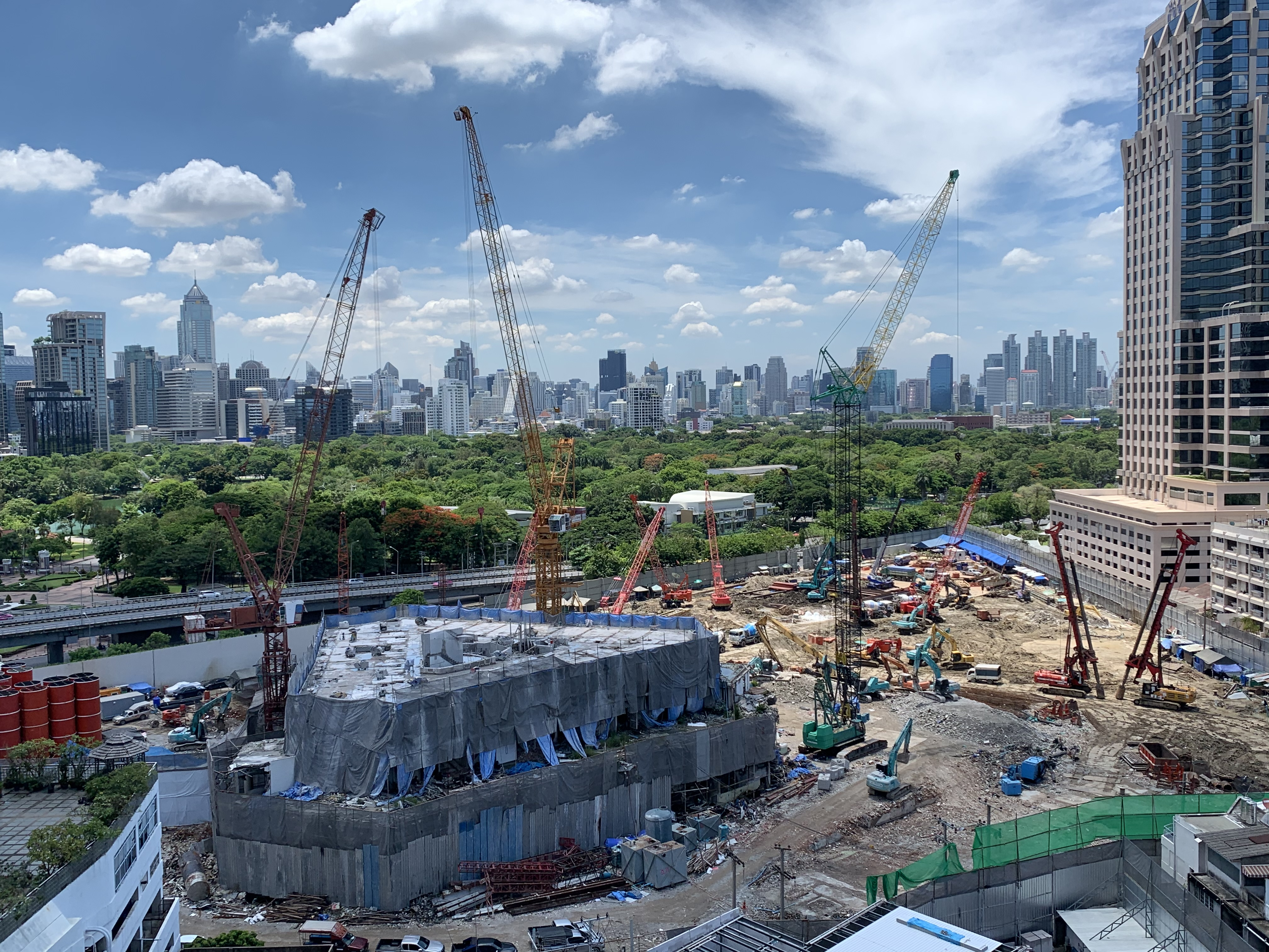 Exchange Tower, Bangkok